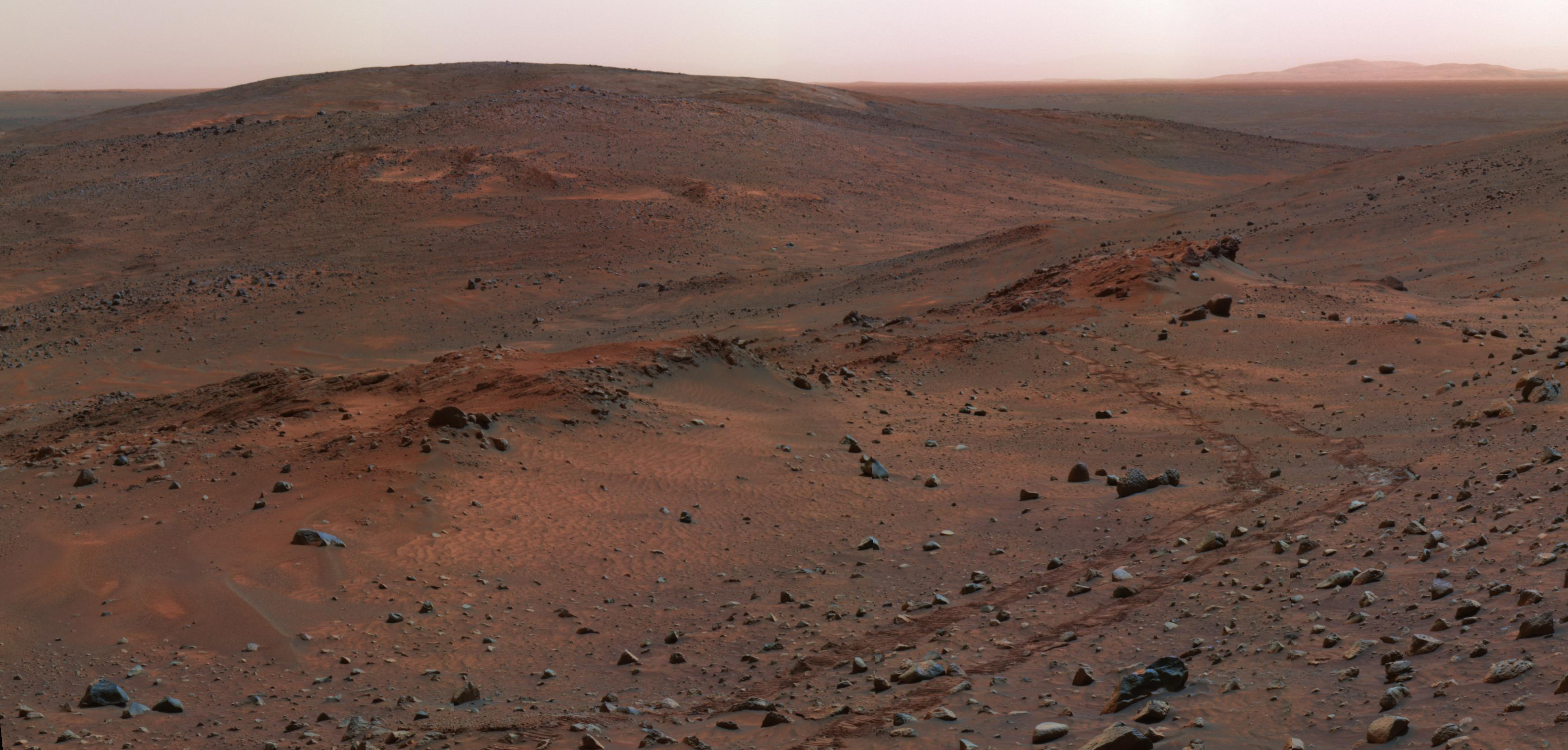 From an original NASA Picture. Picture of mars, taken by Spirit in Sol 454.